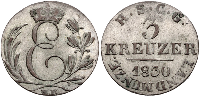 GERMANY, Sachsen-Coburg-Gotha (Herzogtum). Ernst I. 1826-1844. AR 3 Kreuzer (18mm, 1.32 g, 12h). Gotha mint. Dated 1830 EK. Large crowned Є within wreath / Denomination and date. AKS 84; KM (C) 90a. EF, lustrous.